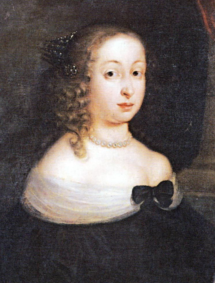 Queen Hedwig Eleanor of Sweden (1636-1715)